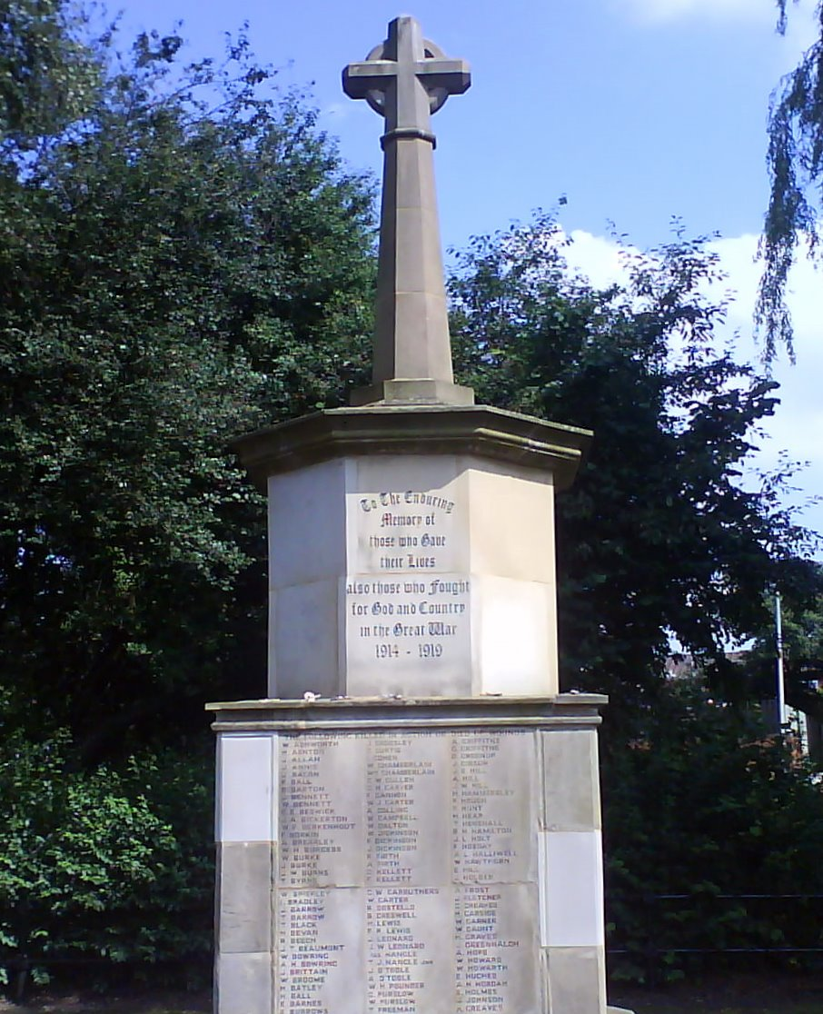 Collyhurst war memorial - erected in 1923 by public suscription.